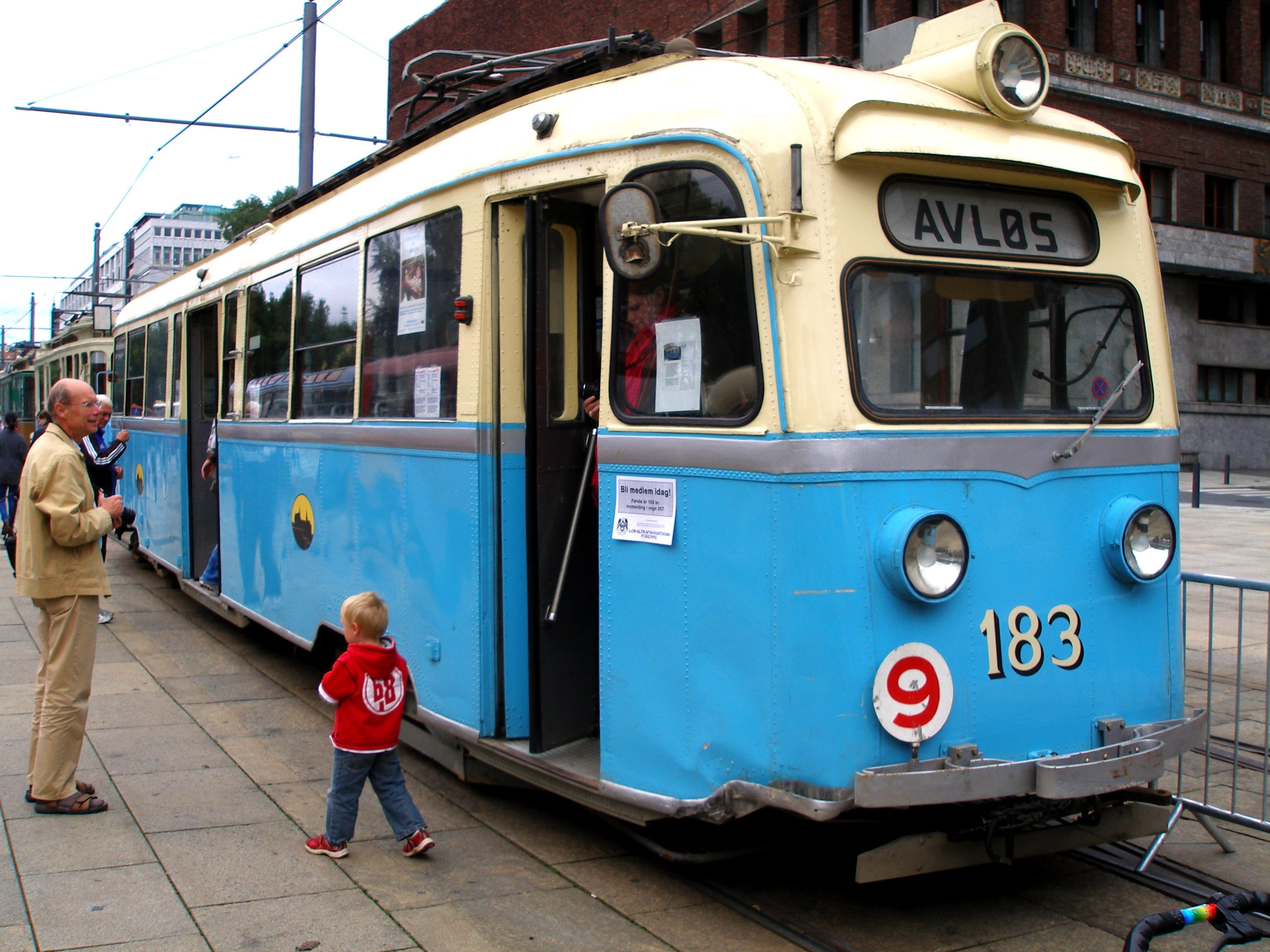 Electric tram from 1940. Built by Skabo for Oslo Sporveier. The tram type was called "Gullfisker" (Goldfish). Taken out of work in 1985. Picture taken in front of Oslo City Hall.